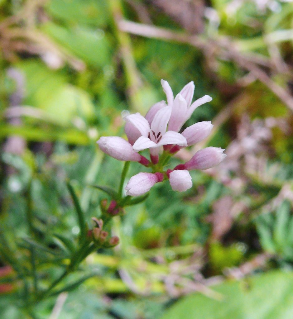 Asperula cynanchica, Frankenhöhe, Germany